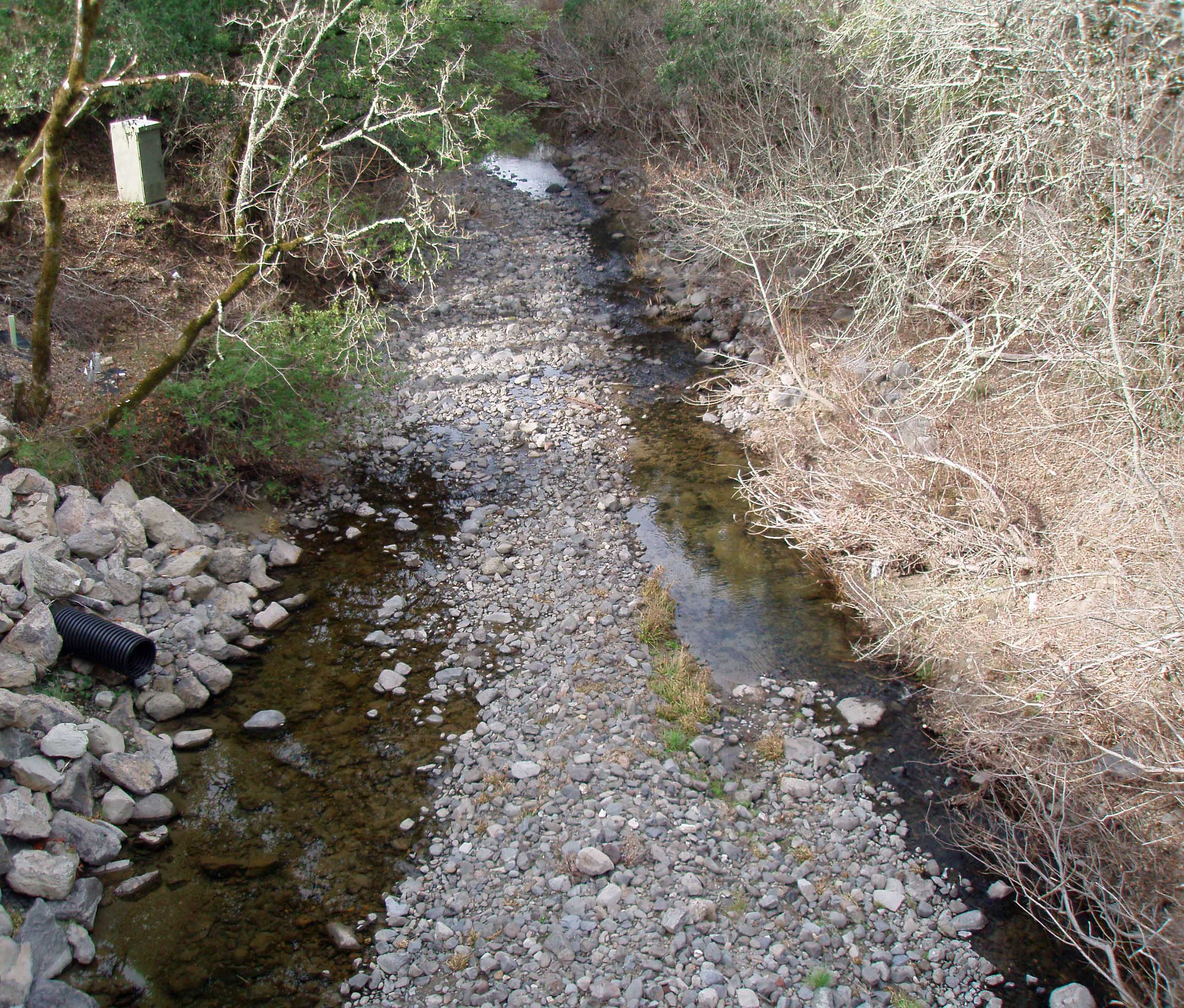 subject: Matanzas creek in bennett valley, sonoma co calif USA